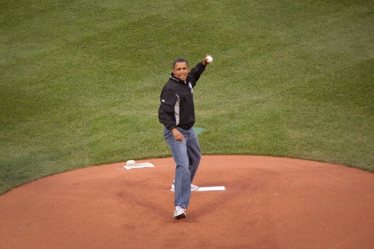 President Barack Obama throwing out the ceremonial first pitch for the 2009 Major League Baseball All-Star Game